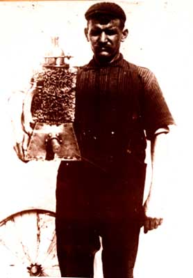 Gustave Whitehead with an early engine.